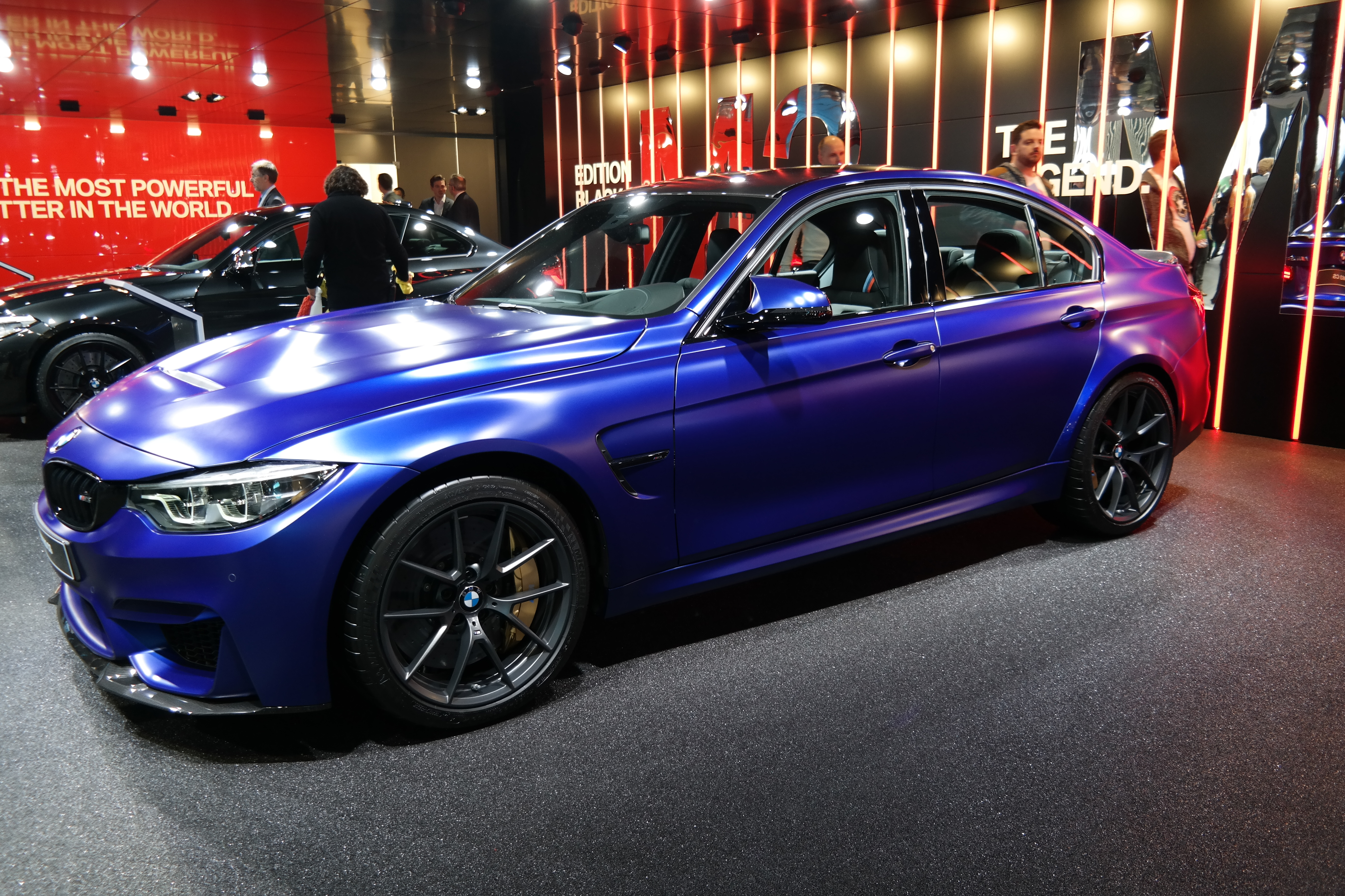 Geneva Motor Show 2018 (photo taken on the first press day)